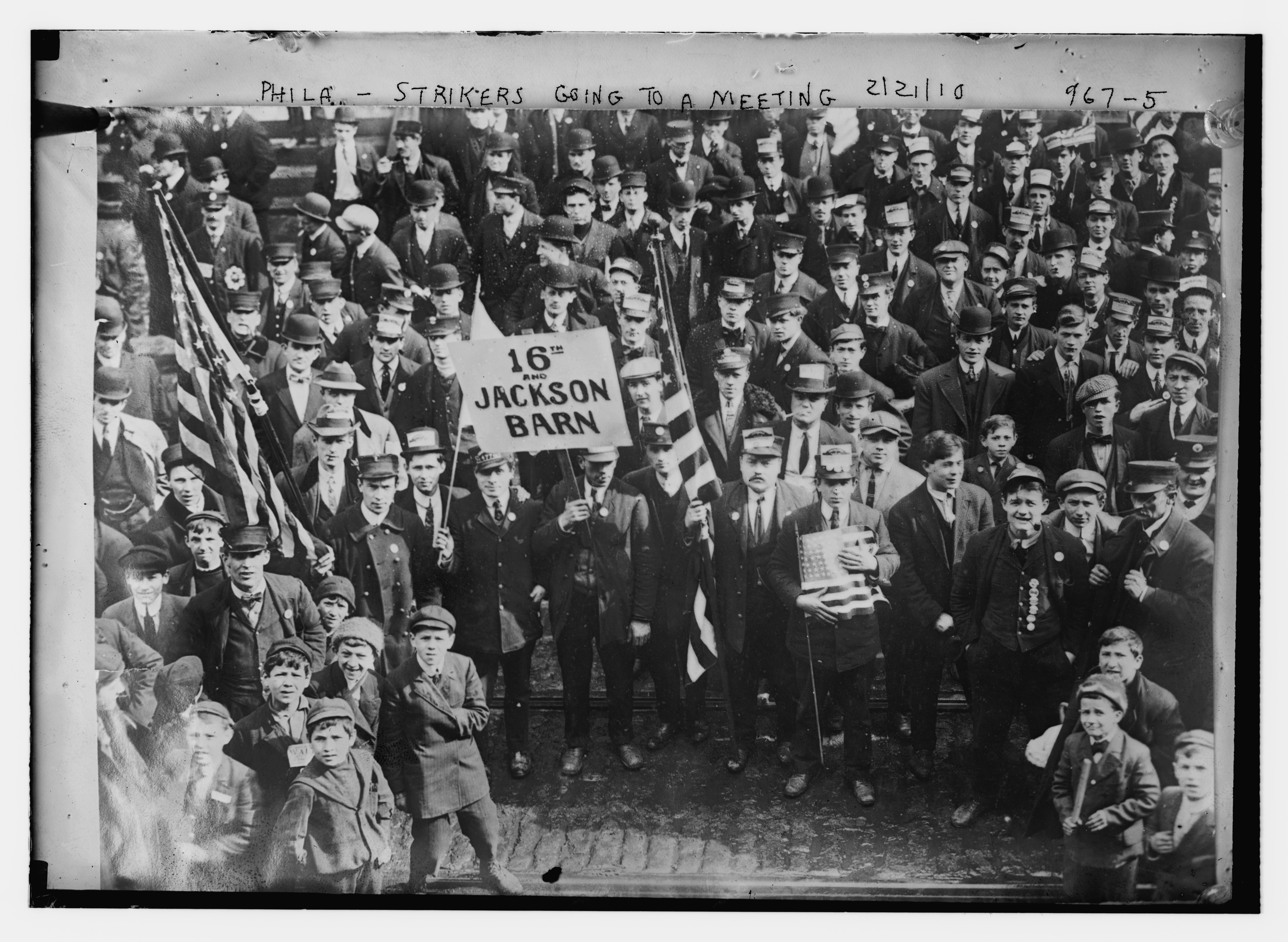 Title: Crowd of strikers going to a meeting, Philadelphia Abstract/medium: 1 negative : glass ; 5 x 7 in. or smaller.